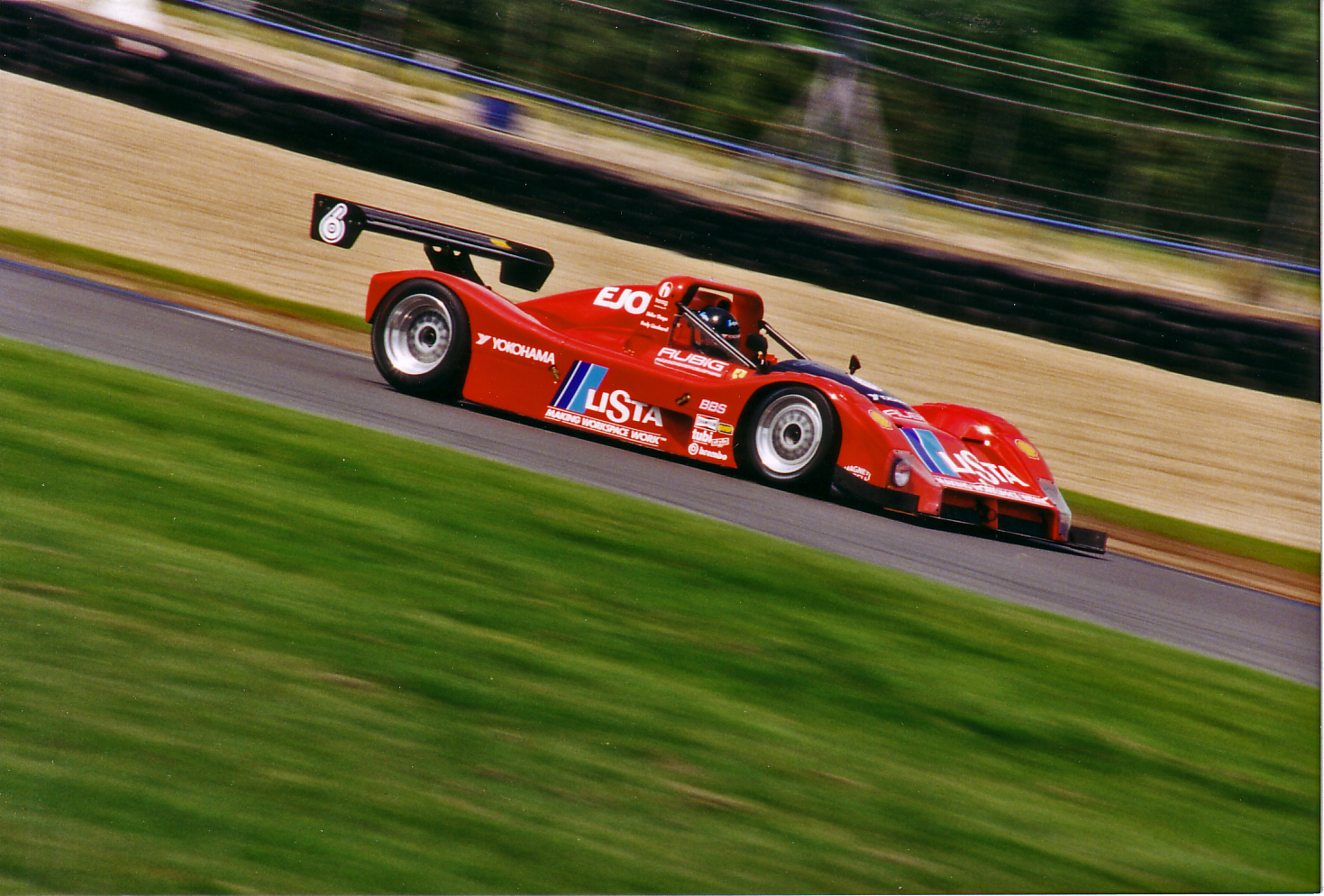 Ferrari 333SP Donnington Donington 5th July 1997